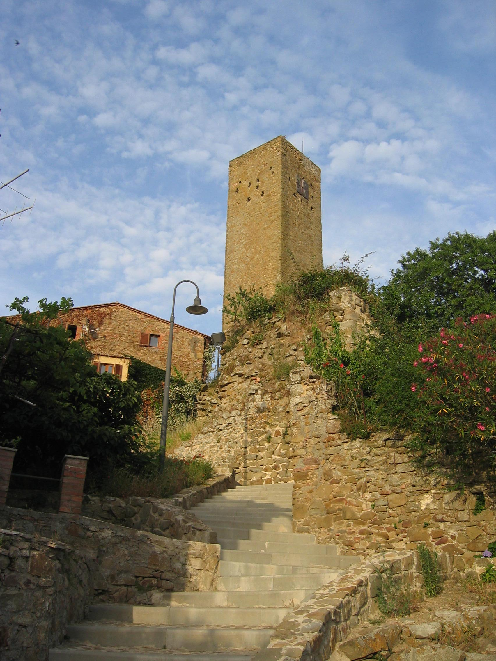 "Rocca degli Aldobrandeschi" medieval Tower Castle in Talamone, Tuscany, Italy. Building from XIII Century and further renovations.